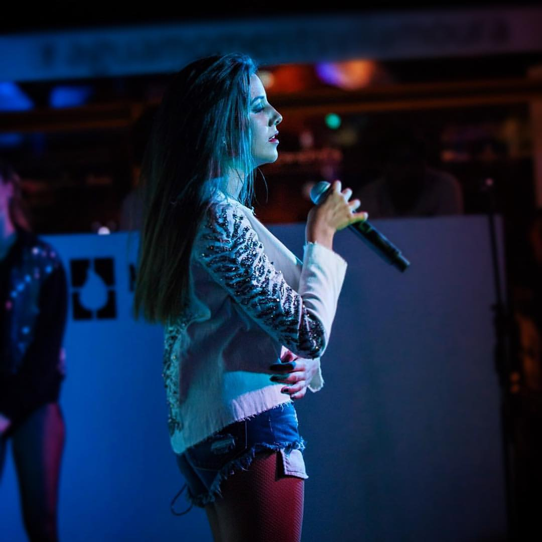 April Ivy Performing Live